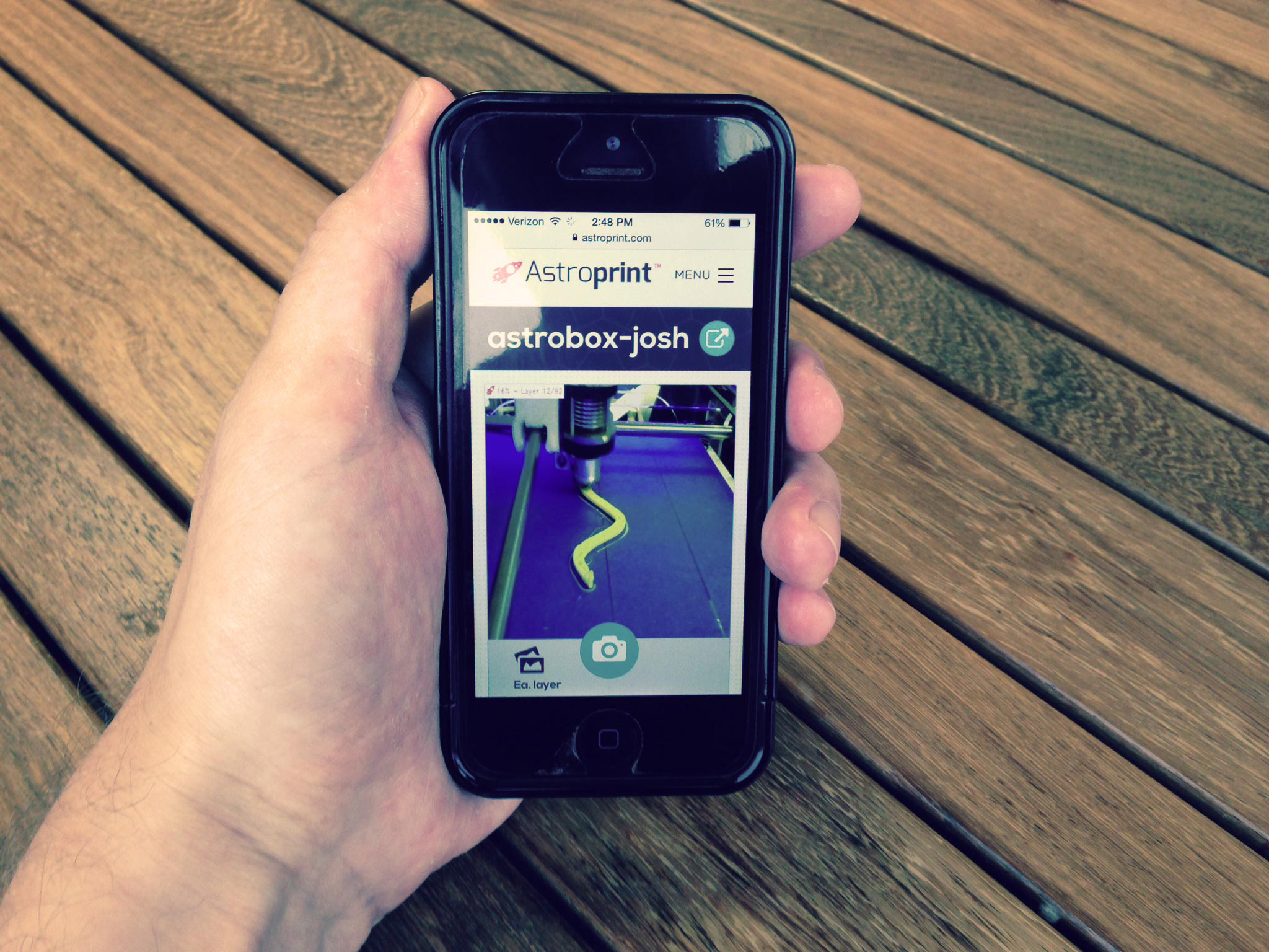 Remotely monitoring 3D Printer status with AstroPrint with a phone.